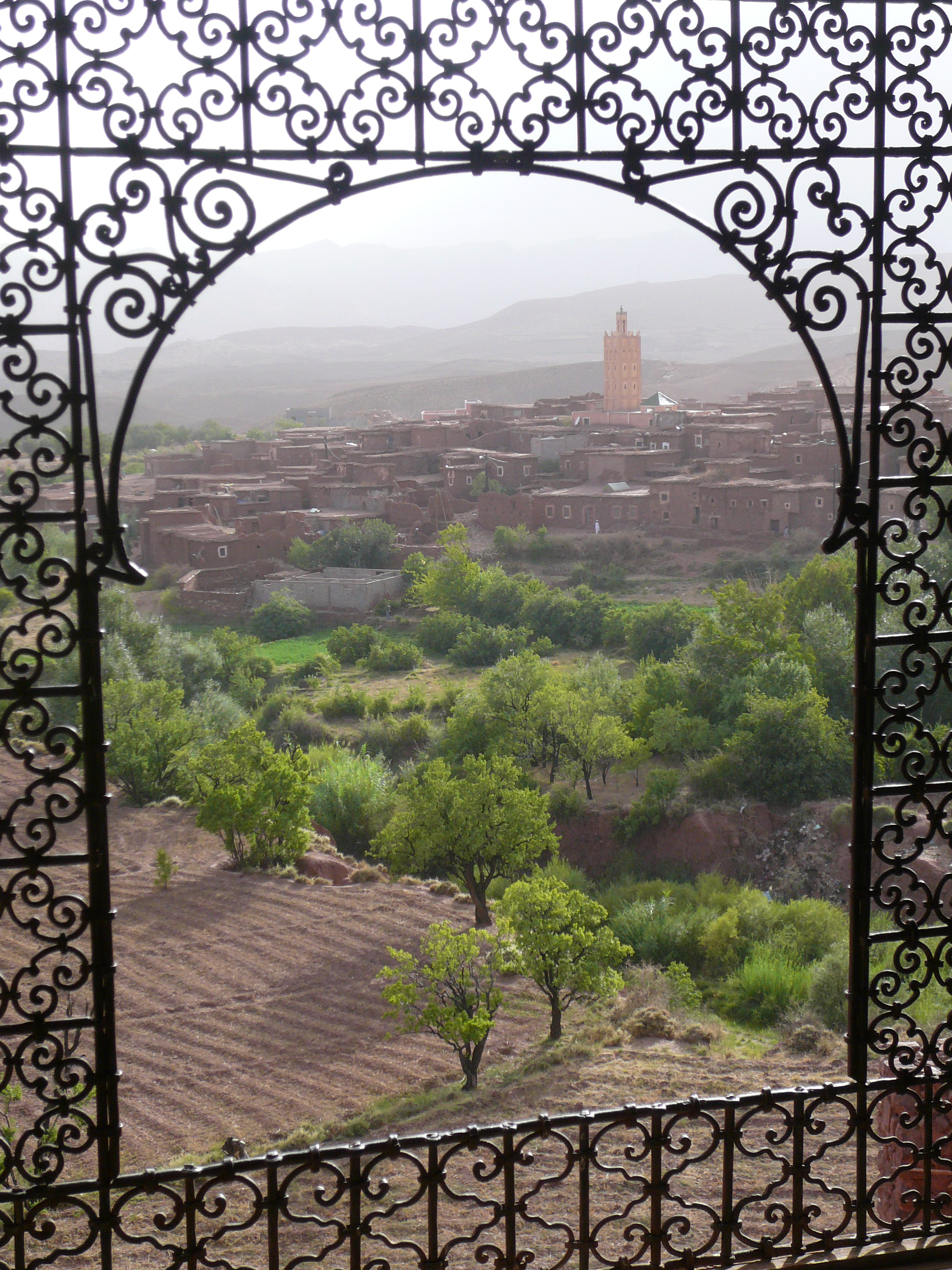 The village of Telouet, seen from the Kasbah of the Glaoui